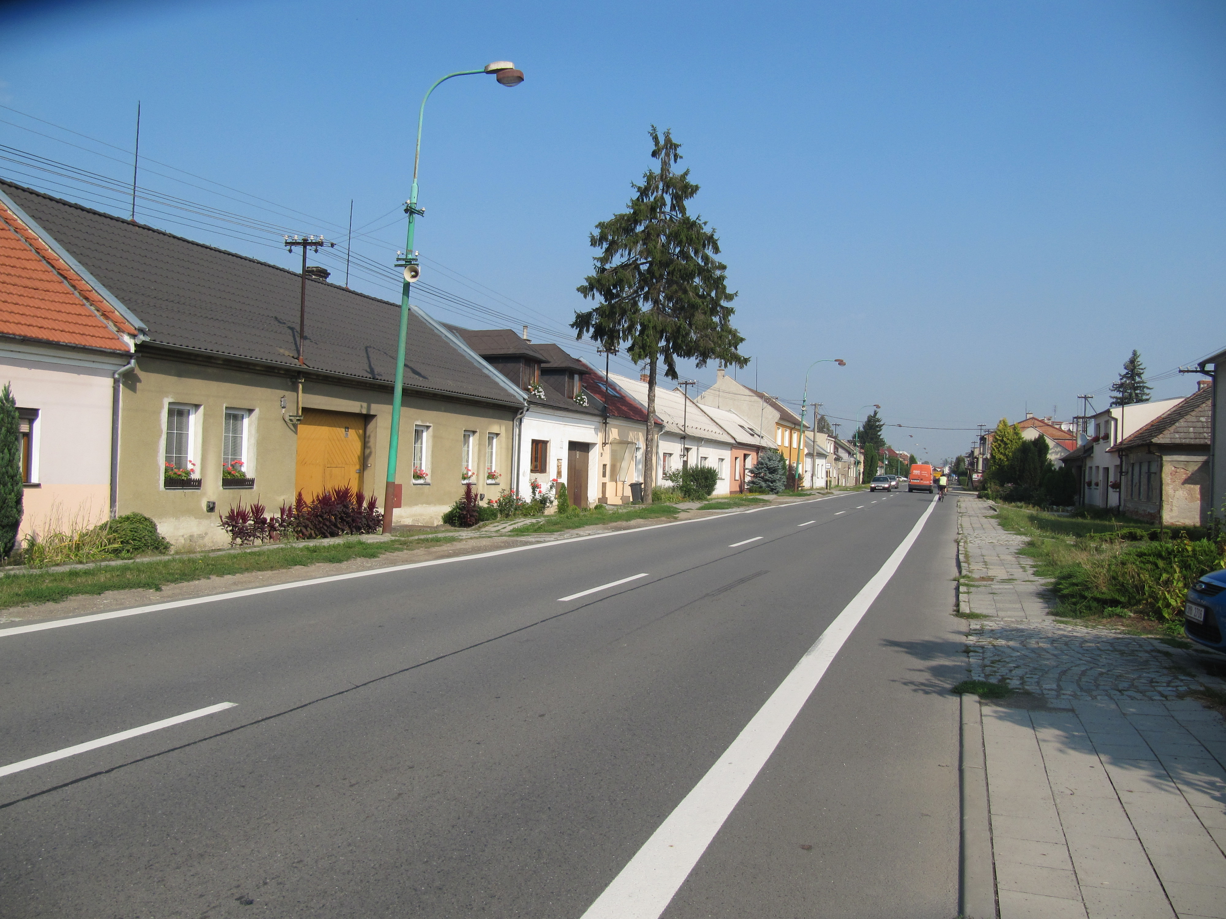 Olomouc, Czech Republic, part Chomoutov. Main street.